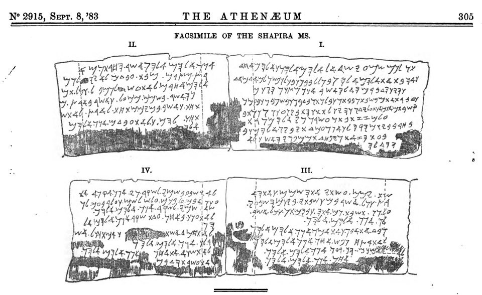 The Athenaeum, September 8, 1883, p. 305.